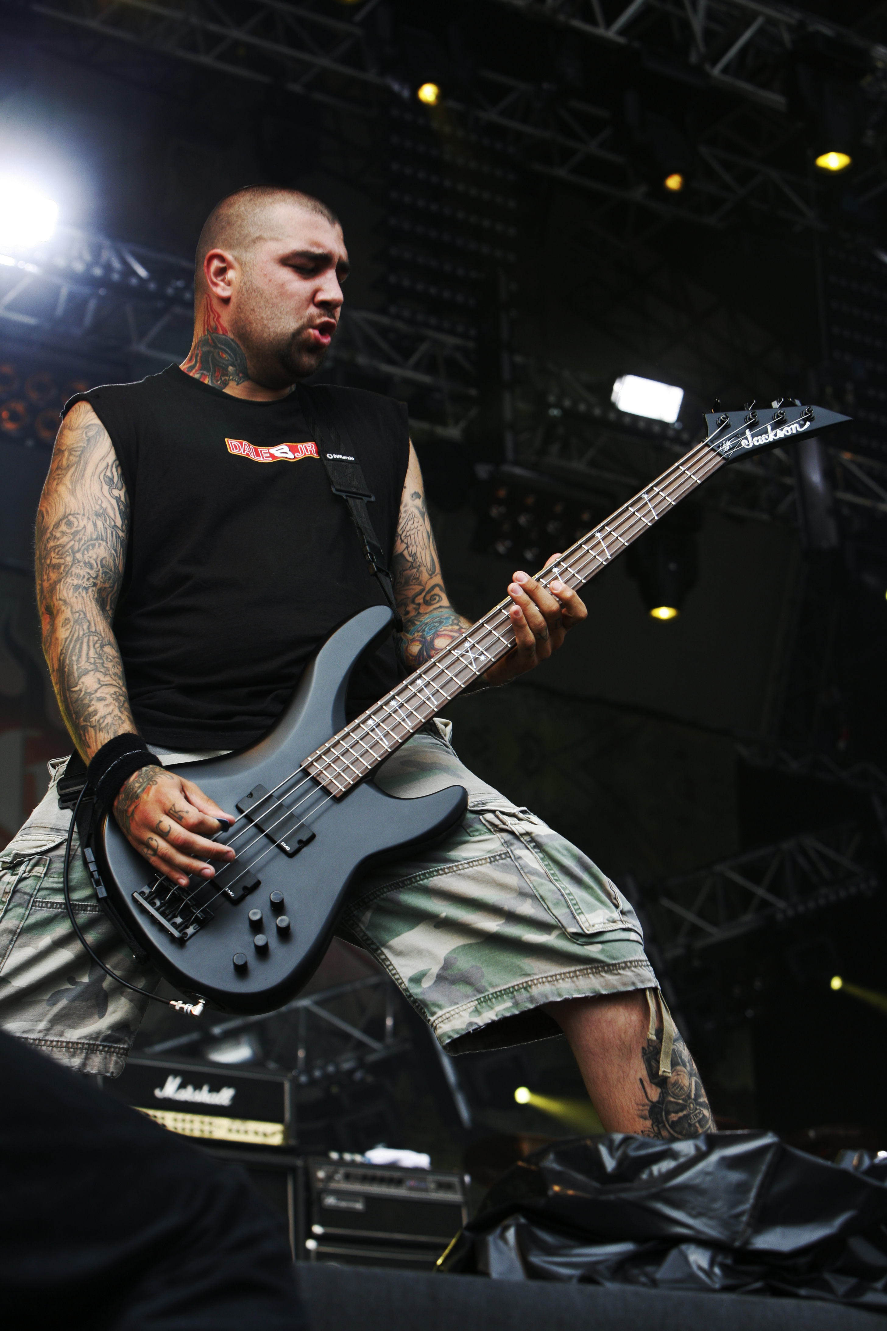 Hatebreed at the Eurockéennes of 2007